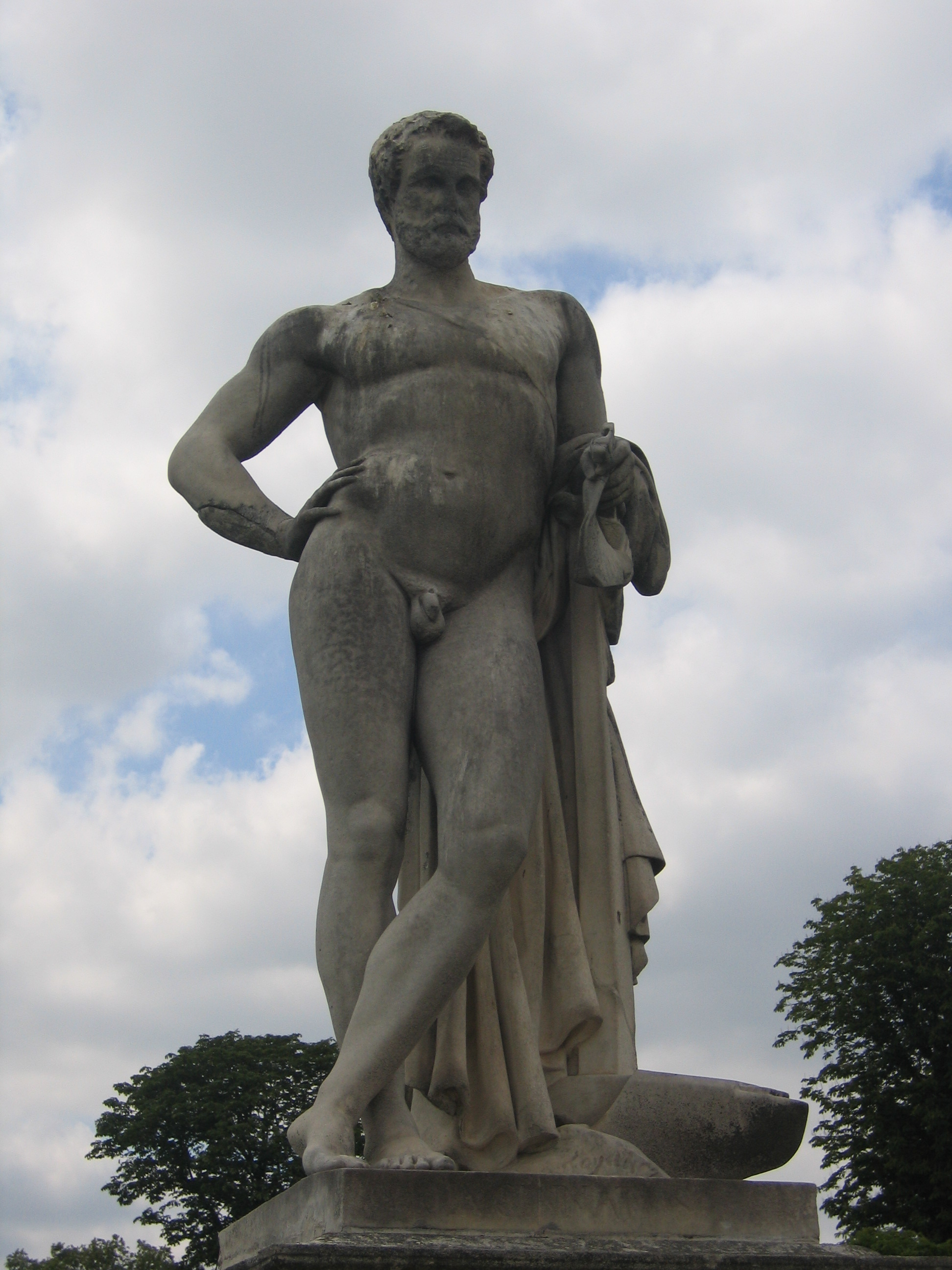 Statue of Cincinnatus by Denis Foyatier, in the Garden of Tuileries, Paris.